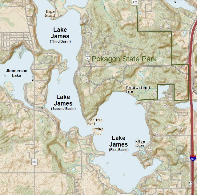 Map of Lake James, Pokagon State Park, and part of Jimmerson Lake in northeastern Indiana, in the United States.